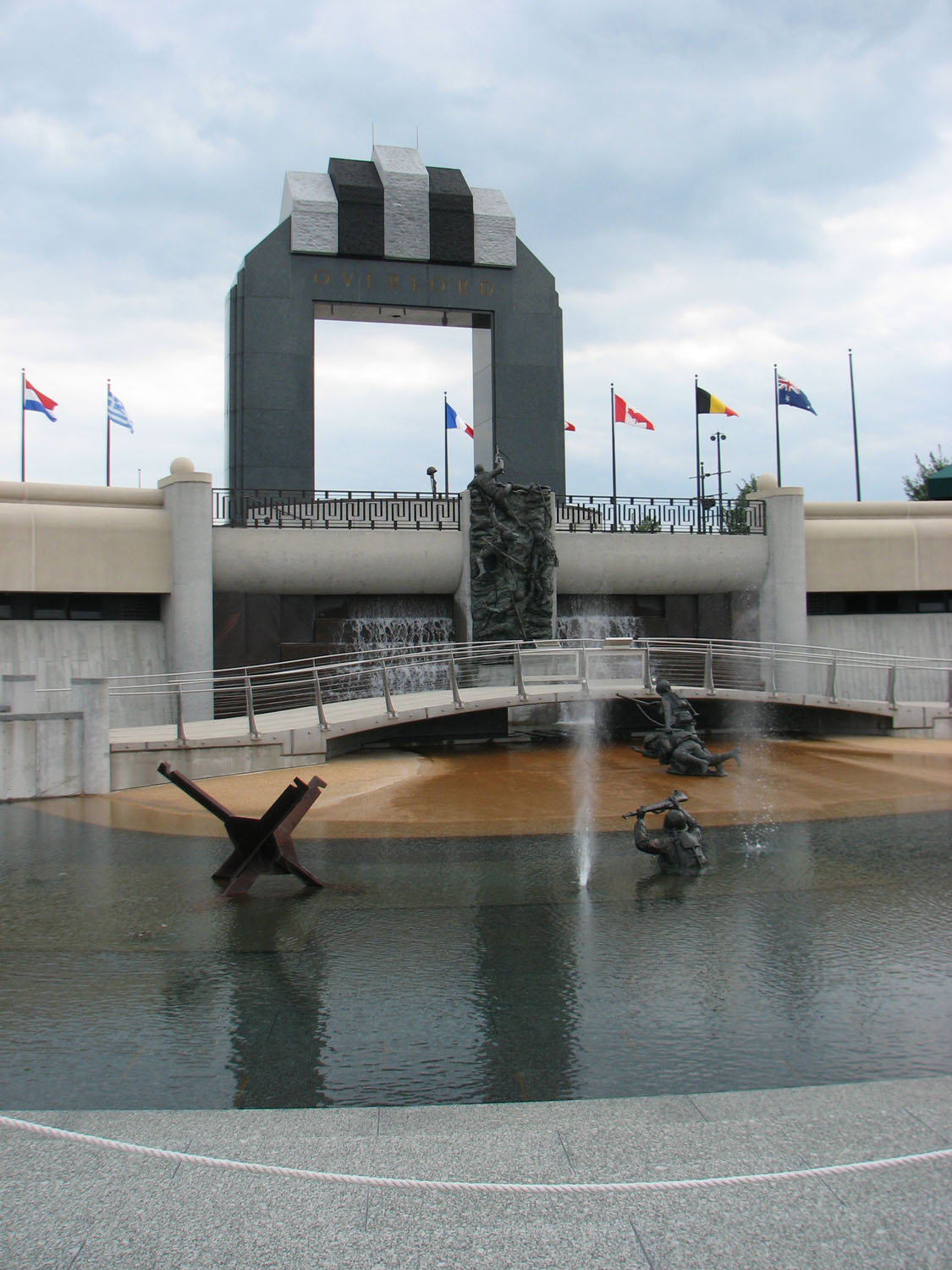 Photograph of the National D-Day Memorial at Bedford, Virginia, taken by RebelAt, on 12 August 2006.